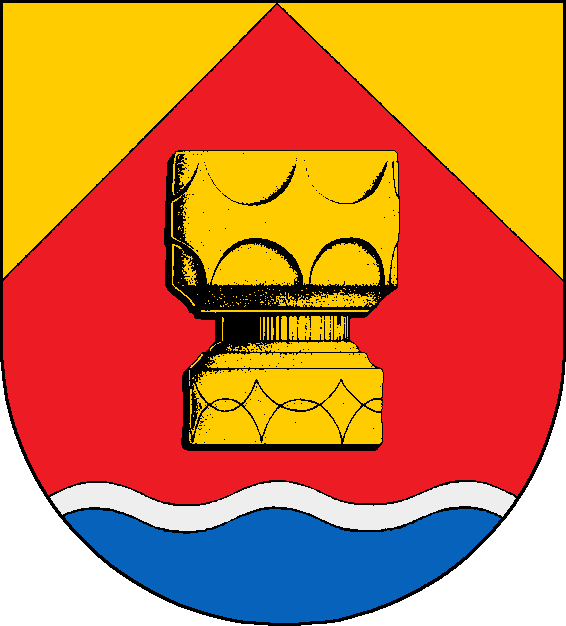 Coat of arms of the municipality Ostenfeld (Husum) in Schleswig-Holstein, Germany.